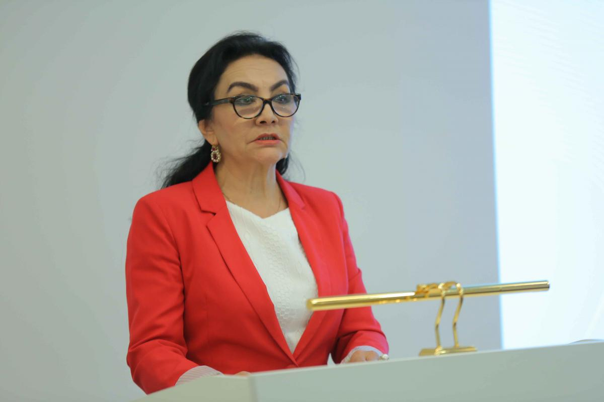 Shermukhamedova Niginakhon in Astana, 2018